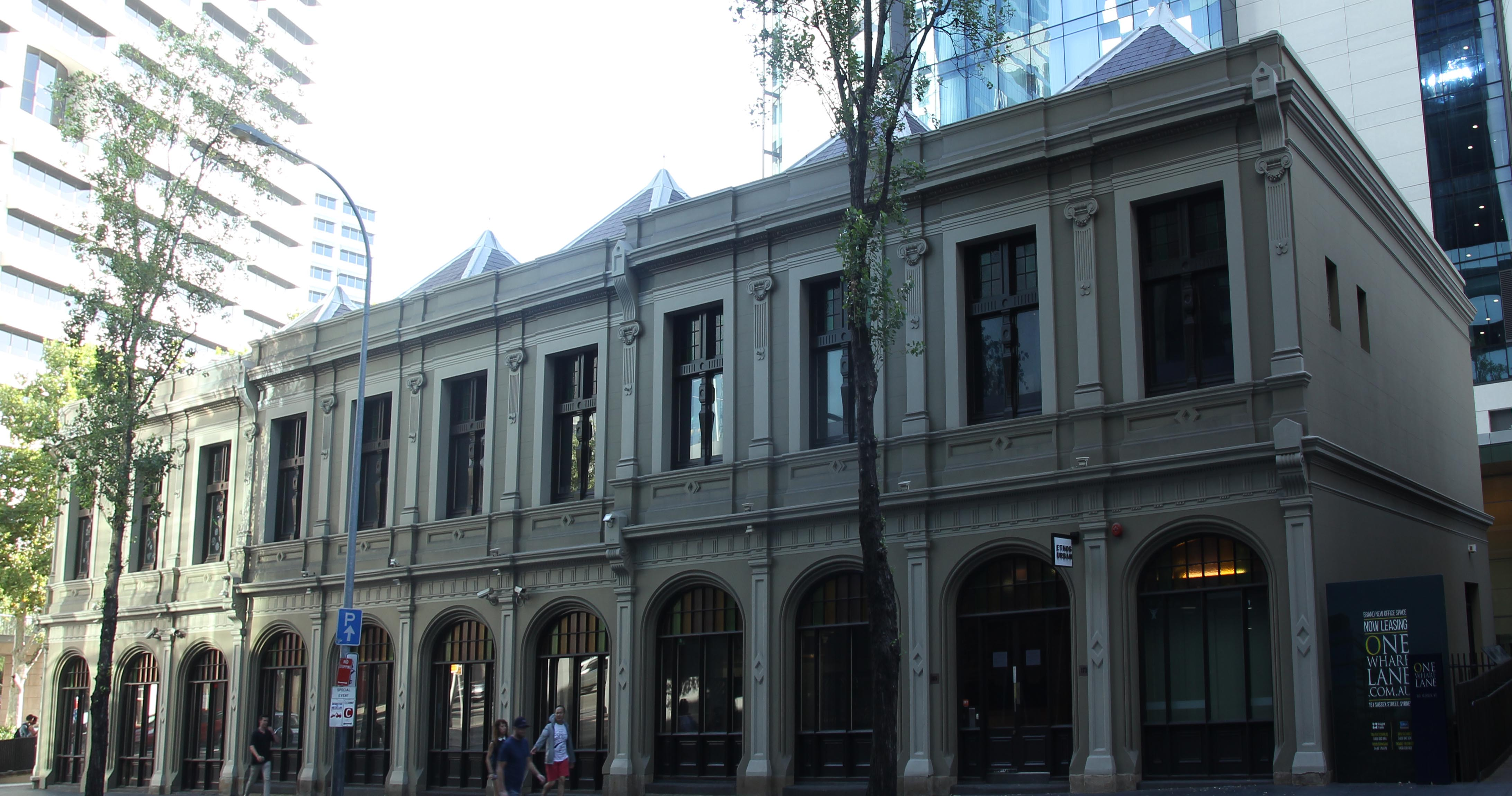 Corn Exchange building located in Sussex Street in the Sydney central business district in the City of Sydney, New South Wales, Australia